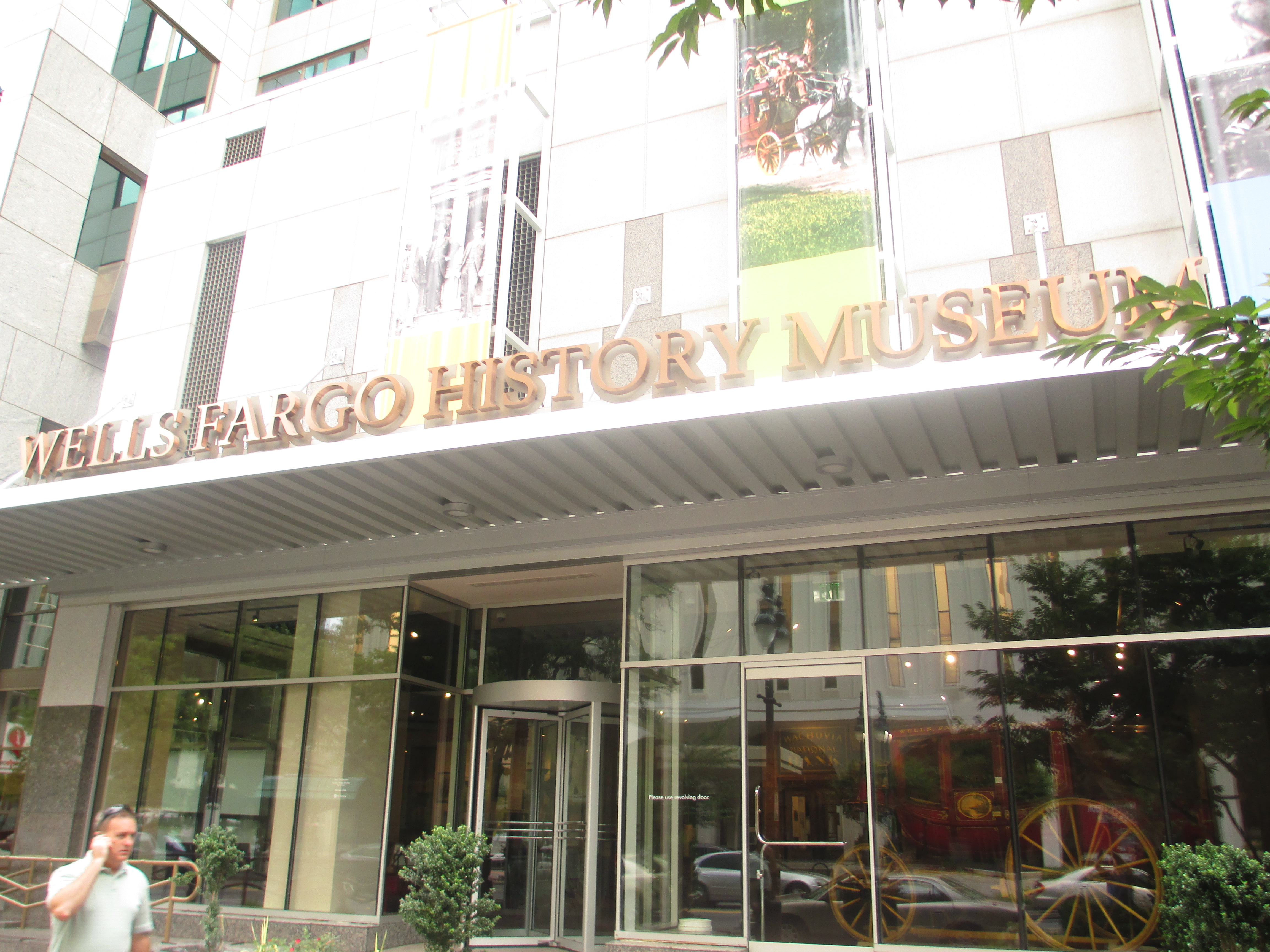 I took photo of Well Fargo History Museum in Charlotte, NC, with Canon camera.